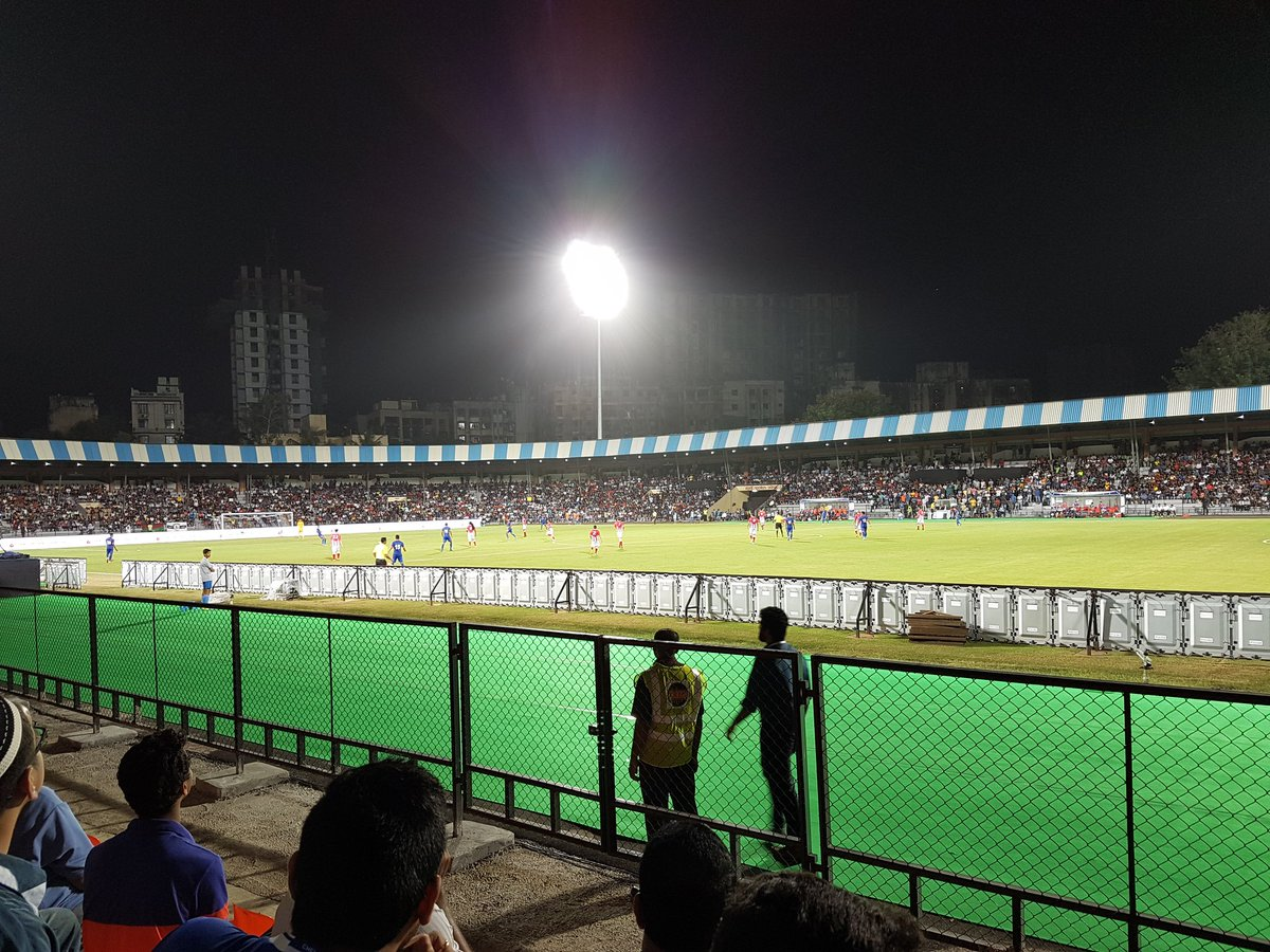 The Mumbai Football Arena in Mumbai, India during India's match against Puerto Rico